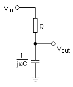 A low-pass first order RC filter